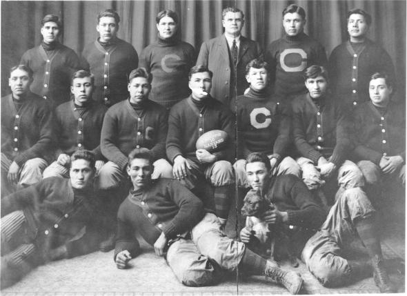 The 1911 Carlisle Indians football team poses with a game ball from the victory against Harvard. Pictured are fullback Jim Thorpe, seated third from right, and head coach Glenn "Pop" Warner, standing third from right.